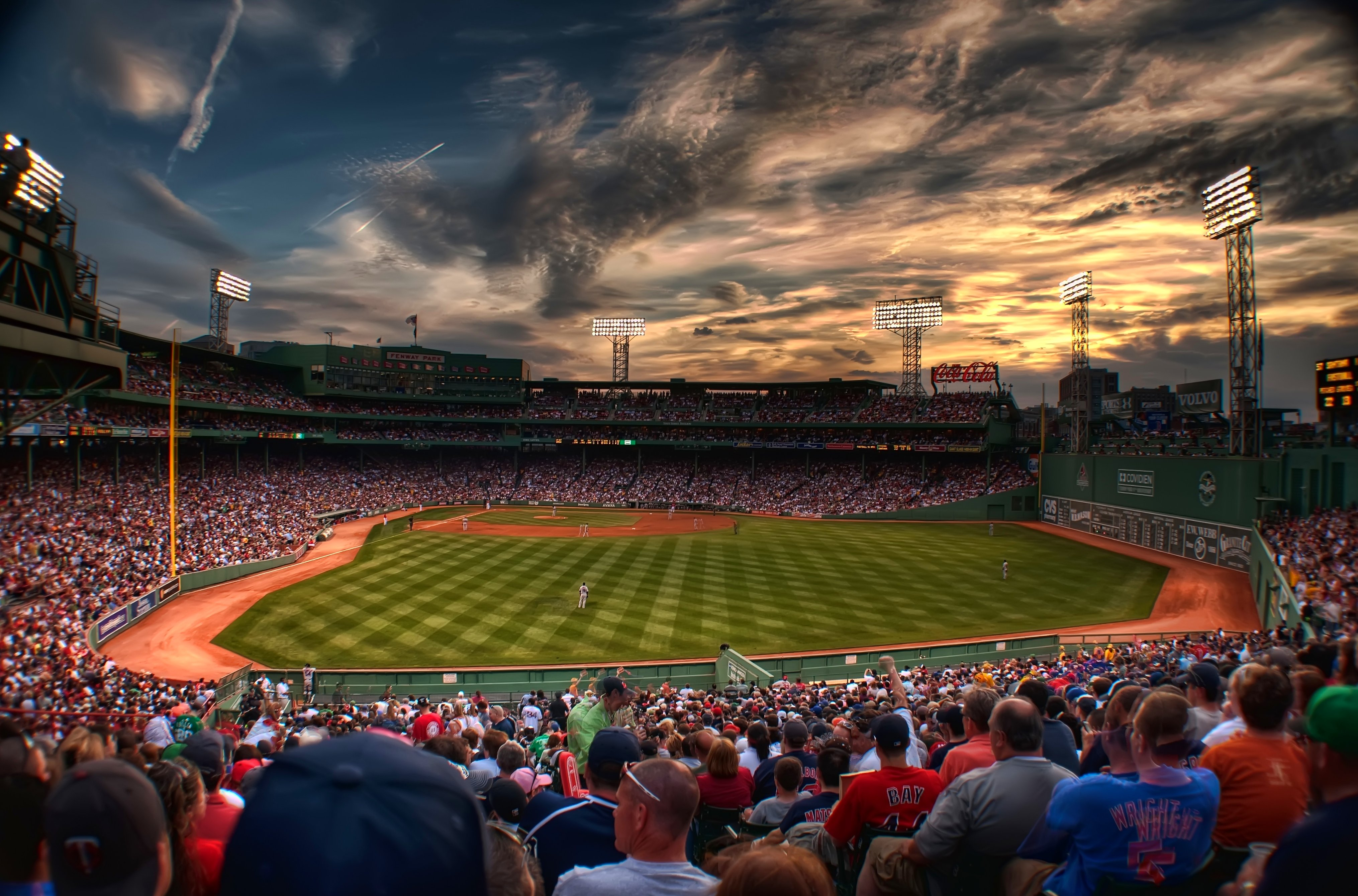 Fenway Park